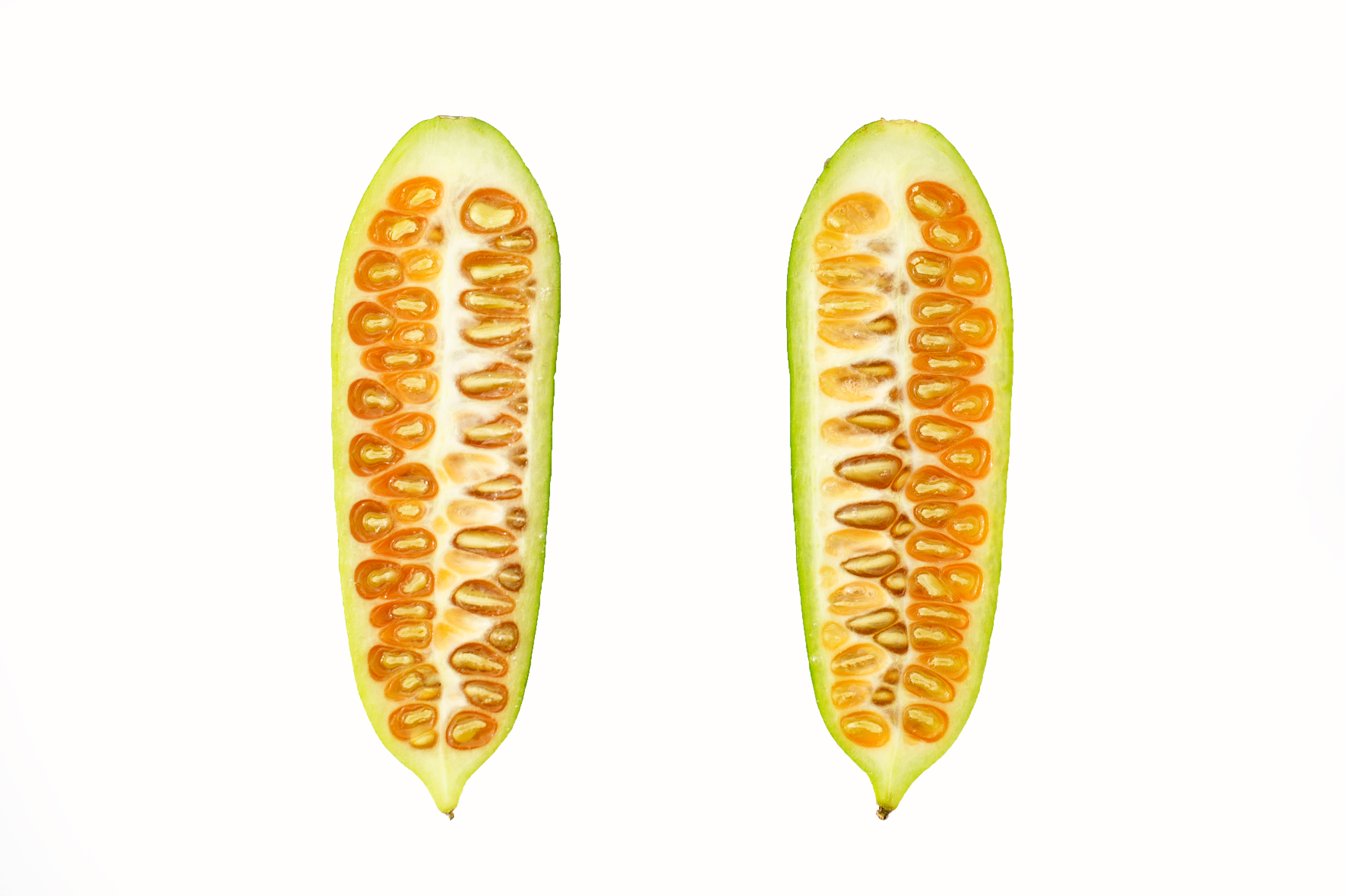 Baby Watermelon, cross section